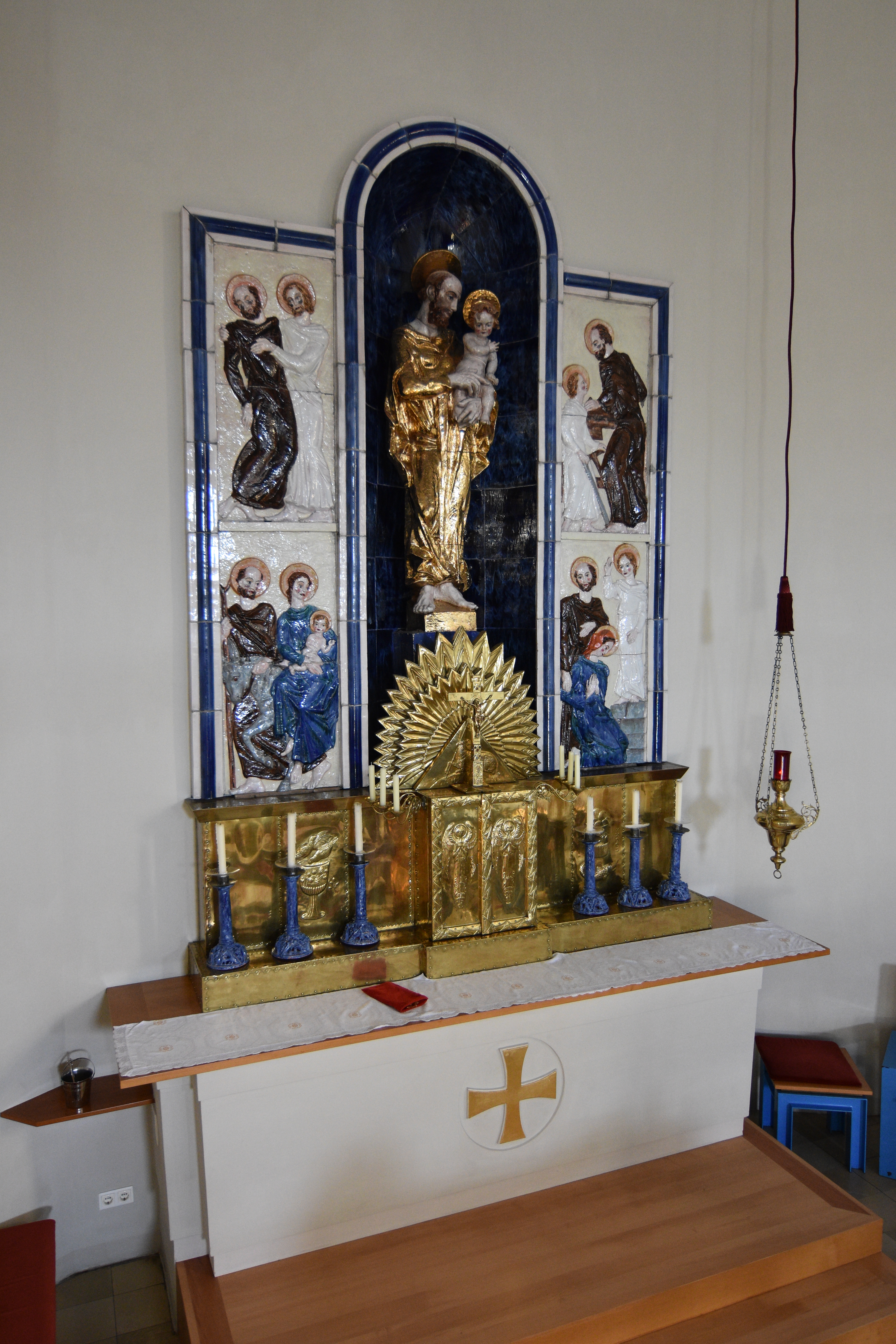 Church Güttenbach - Interior